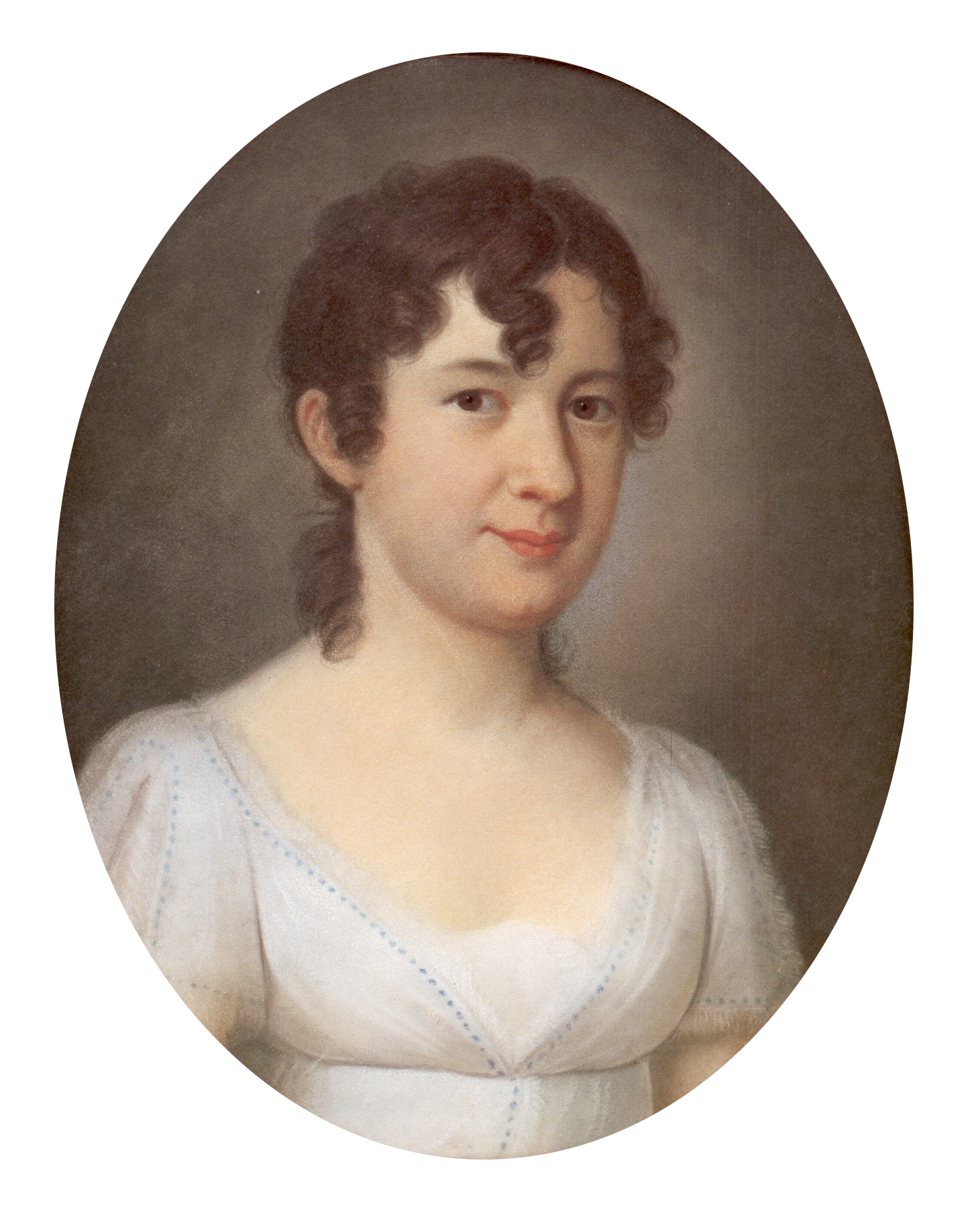 Portrait of Marianne von Willemer, mistress of Johann Wolfgang von Goethe